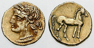 Zeugitana, Carthage. Circa 218-202 BC. EL 3/8 Shekel (2.74 gm). Wreathed head of Tanit left, wearing single-pendant earring and necklace Horse standing right. Jenkins and Lewis Group XV, 478-479; cf. SNG Copenhagen 332ff. Good VF, scratches on both sides.